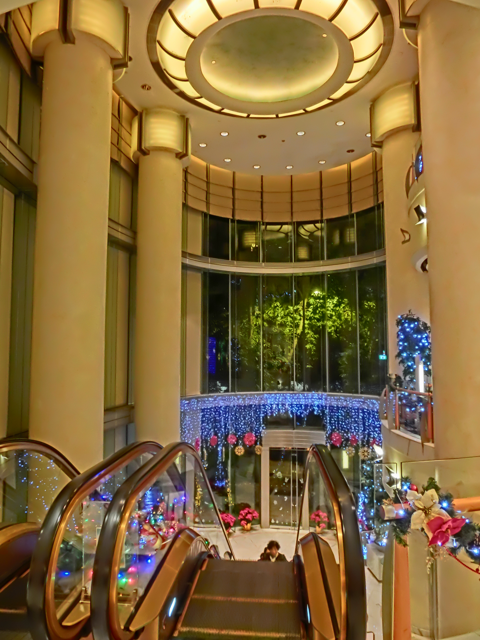 香港銅鑼灣維景酒店, Metropark Hotel Causeway Bay, Hong Kong